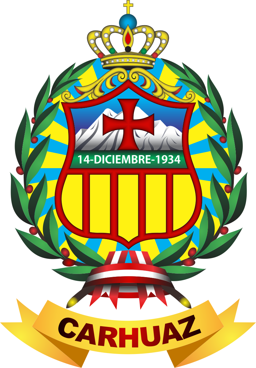 District of Carhuaz - carhuaz province - Region Ancash